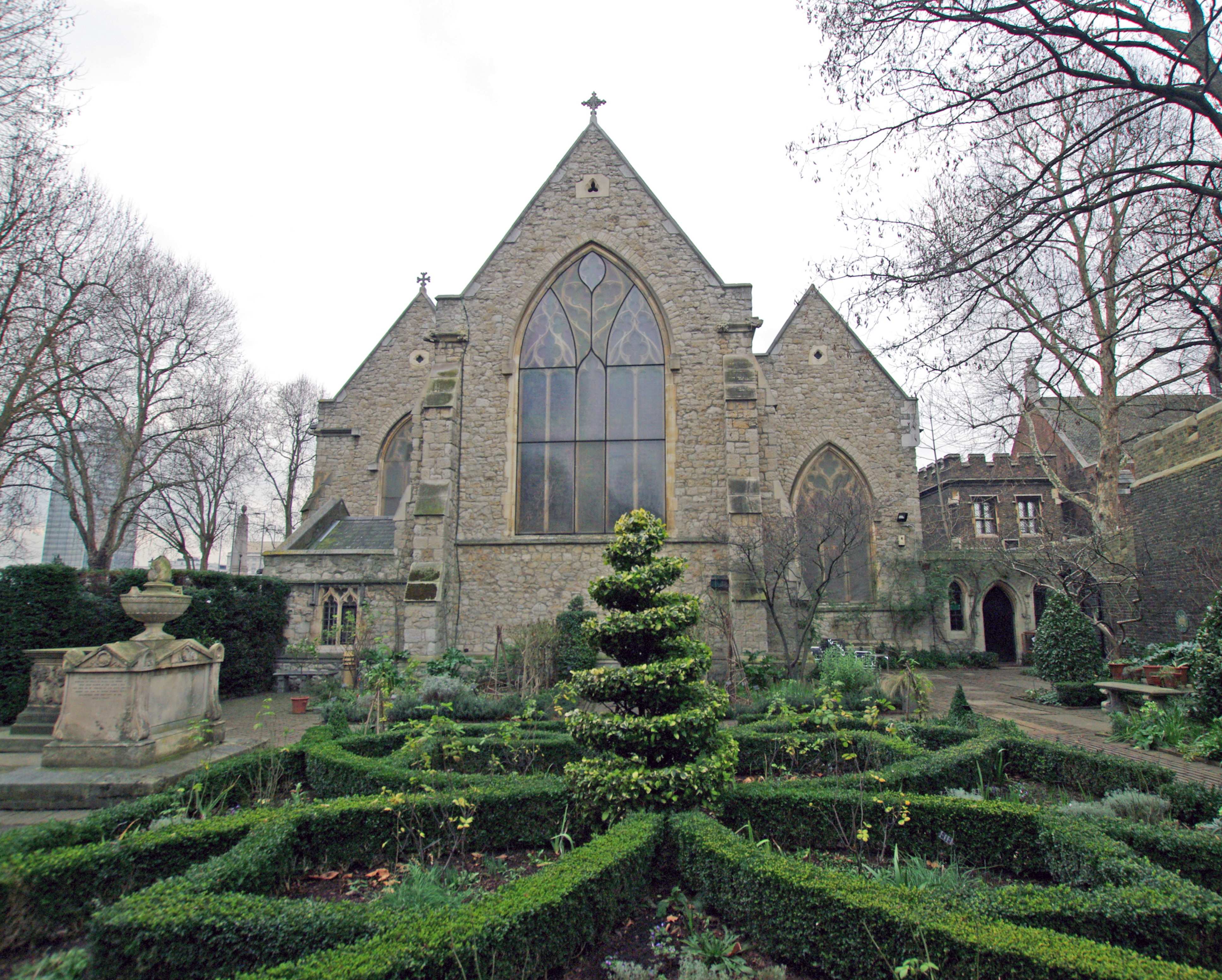 Knot Garden and St Mary's Lambeth